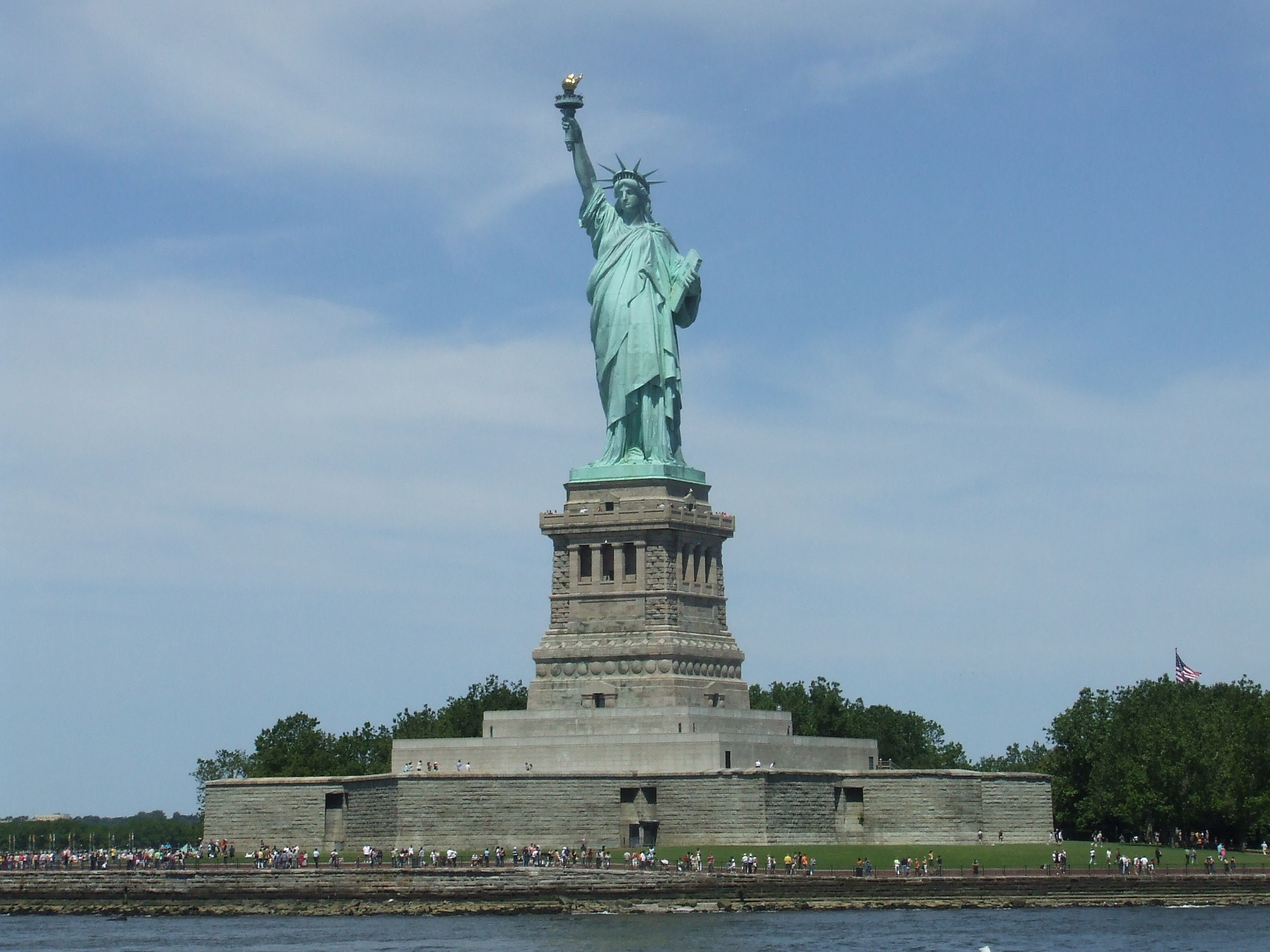 NYC Statue of liberty